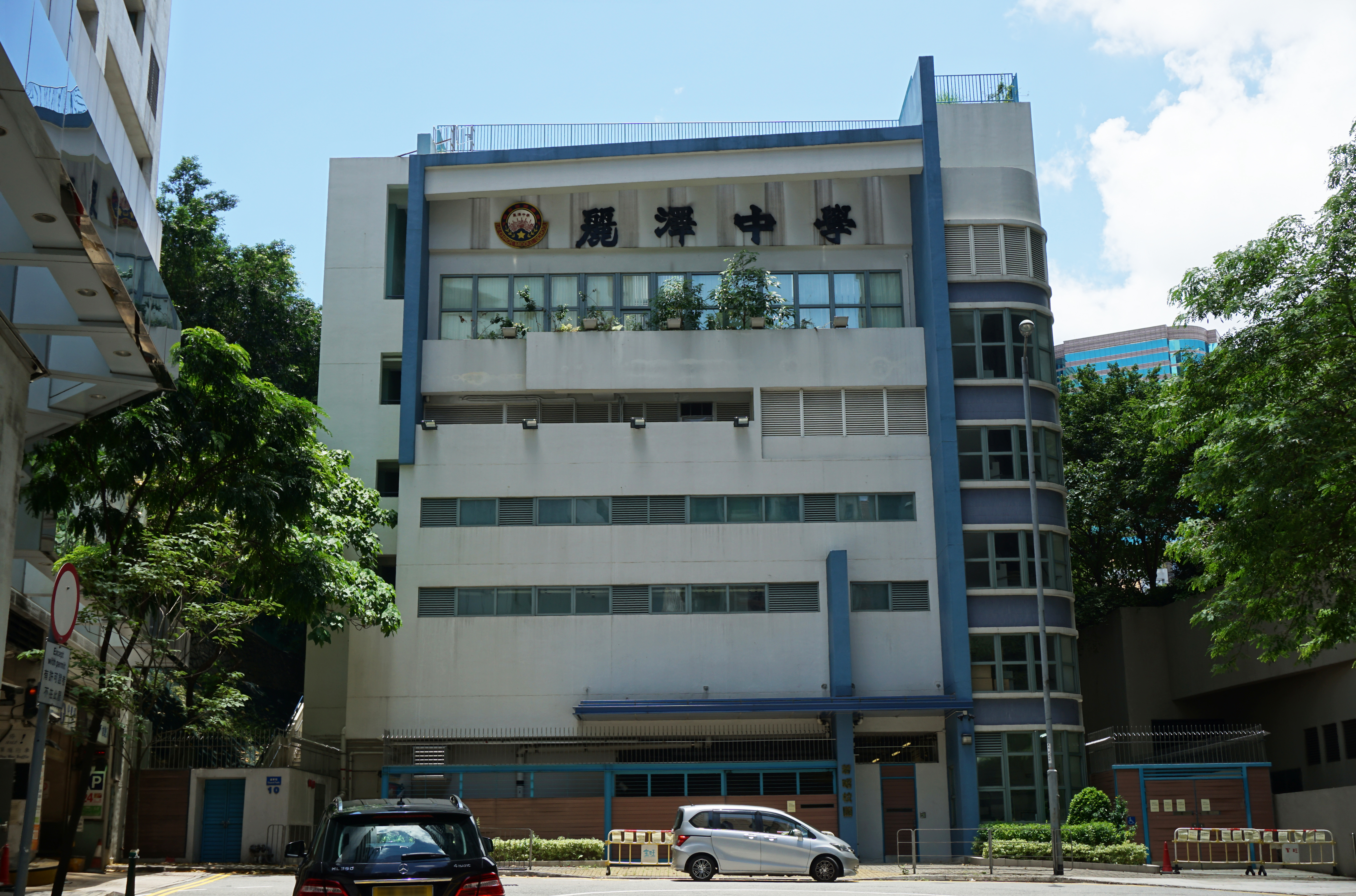 Lai Chack Middle School in Tsim Sha Tsui, Hong Kong.